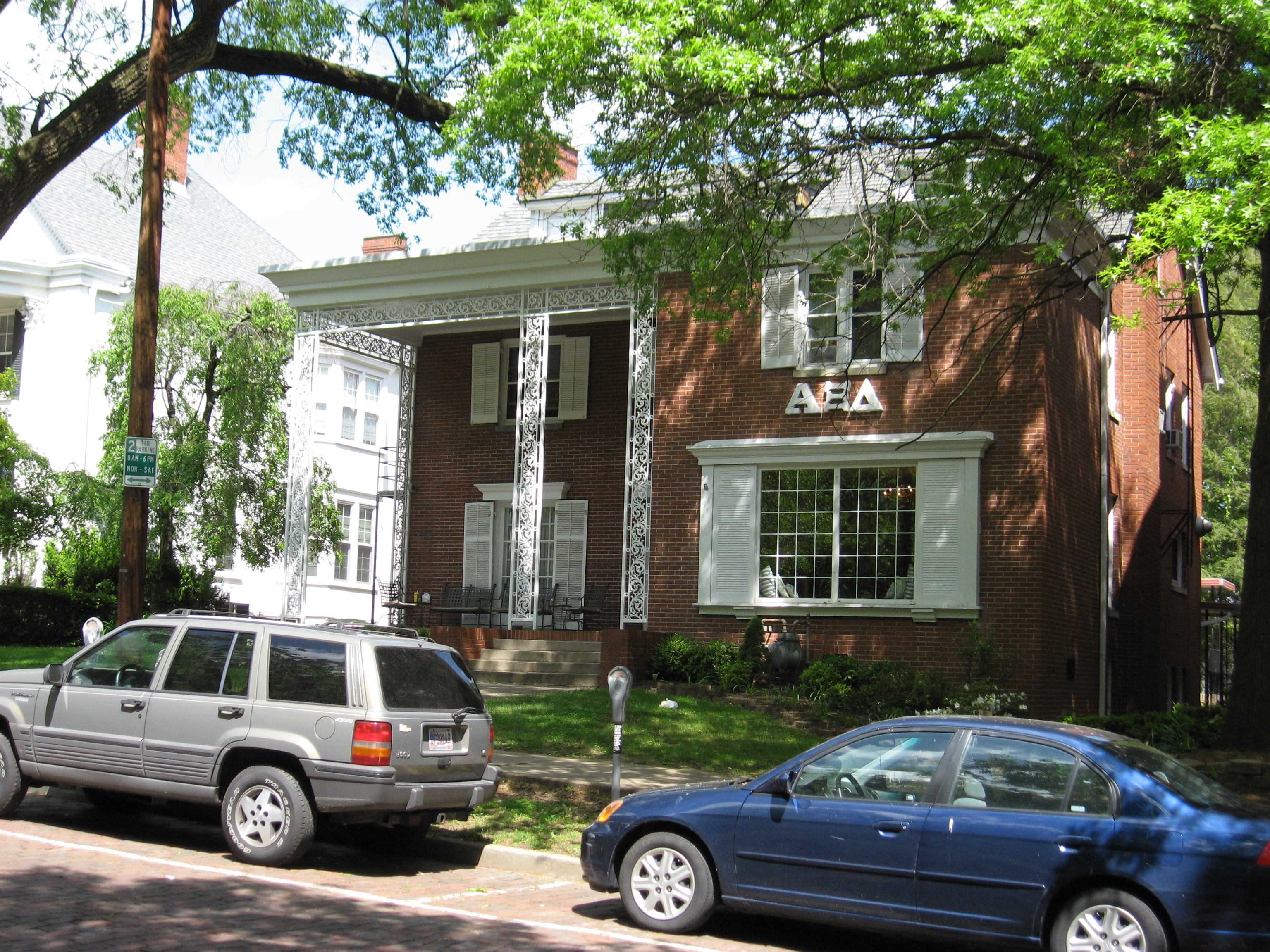 Alpha Xi Delta Sorority House at Ohio University(Athens, Ohio, USA)